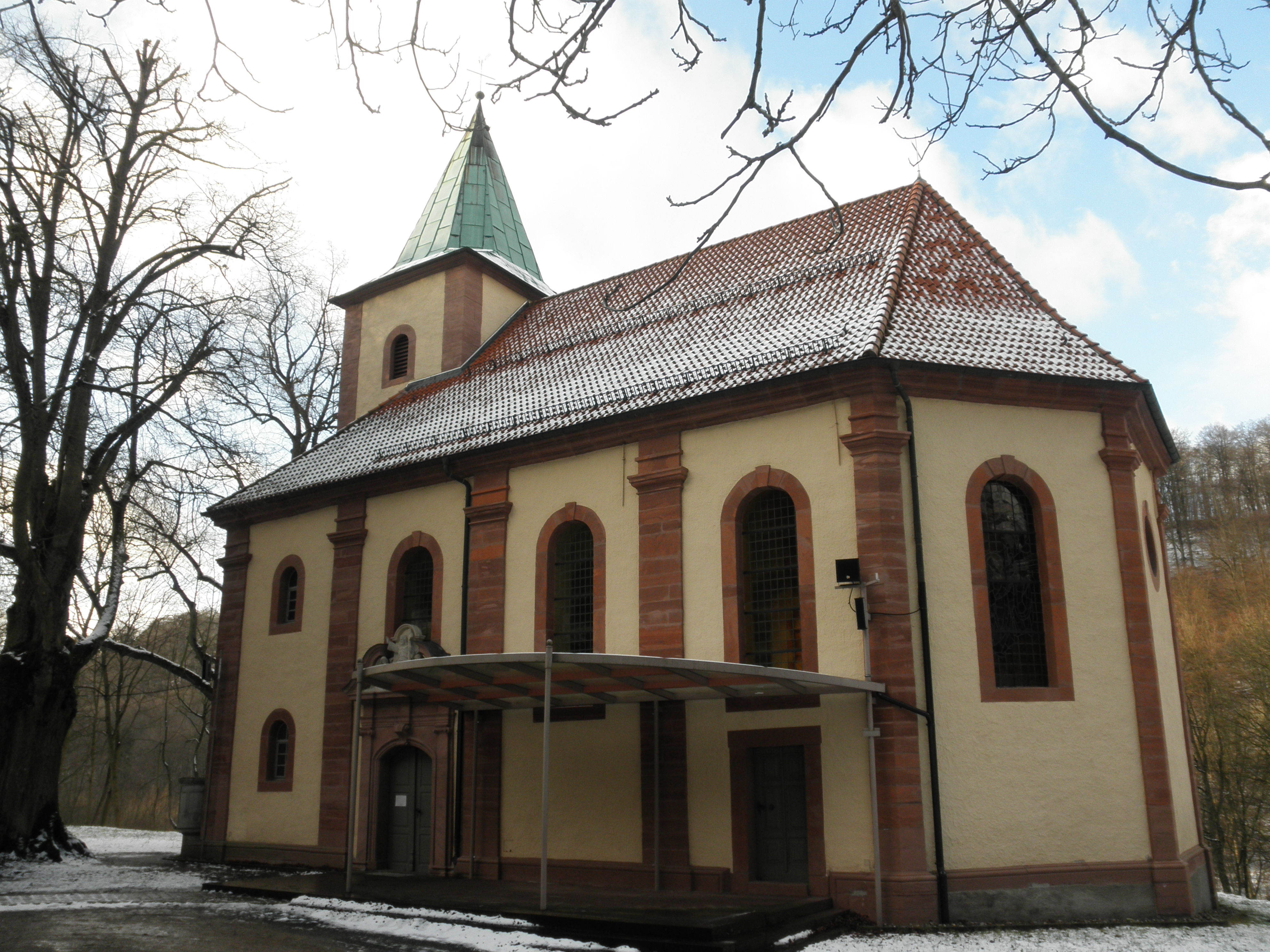 Church Klüschen Hagis (Eichsfeld) in Thuringia